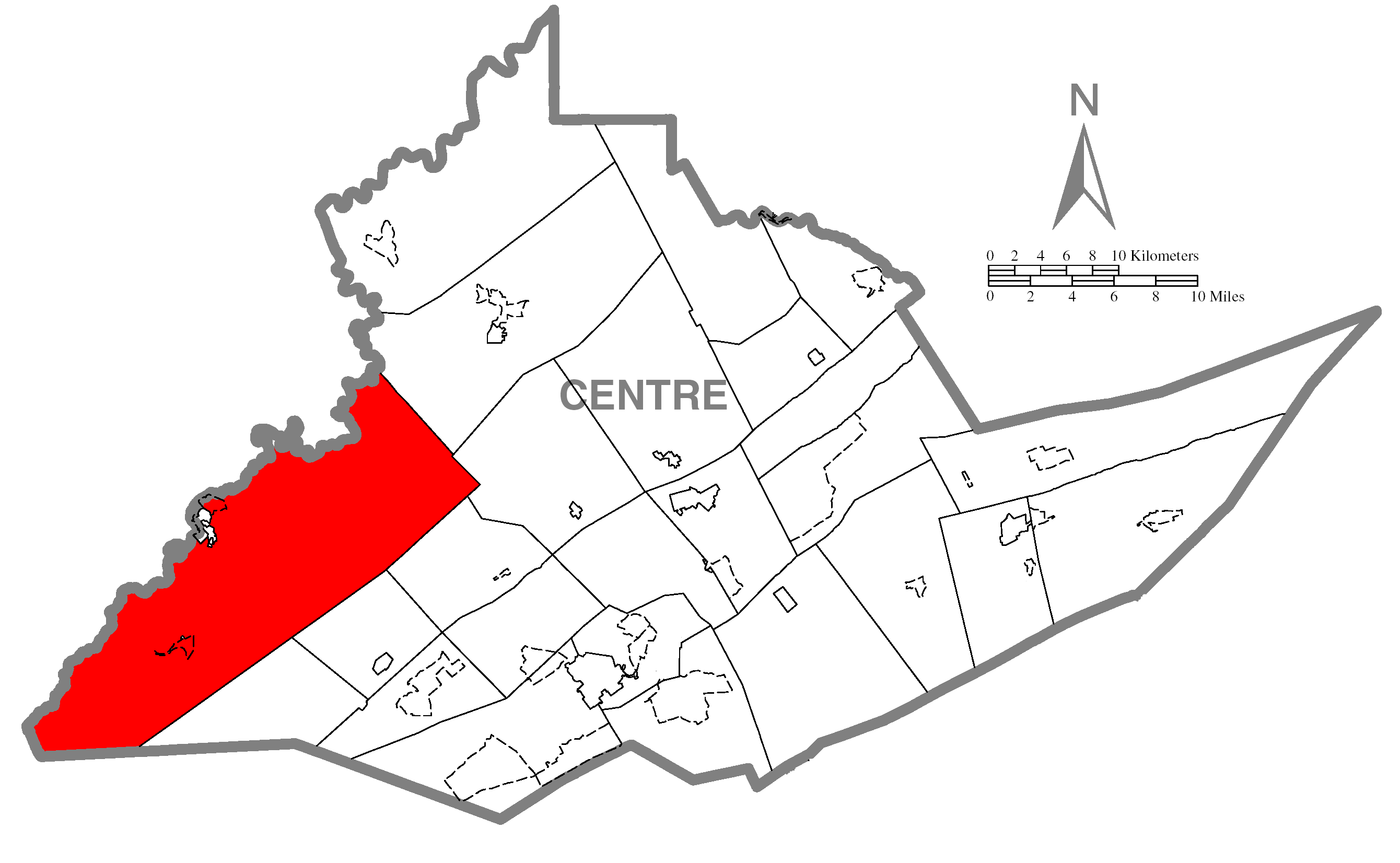 A map of Centre County showing Rush Township, Pennsylvania (alternate) highlighted on the map.